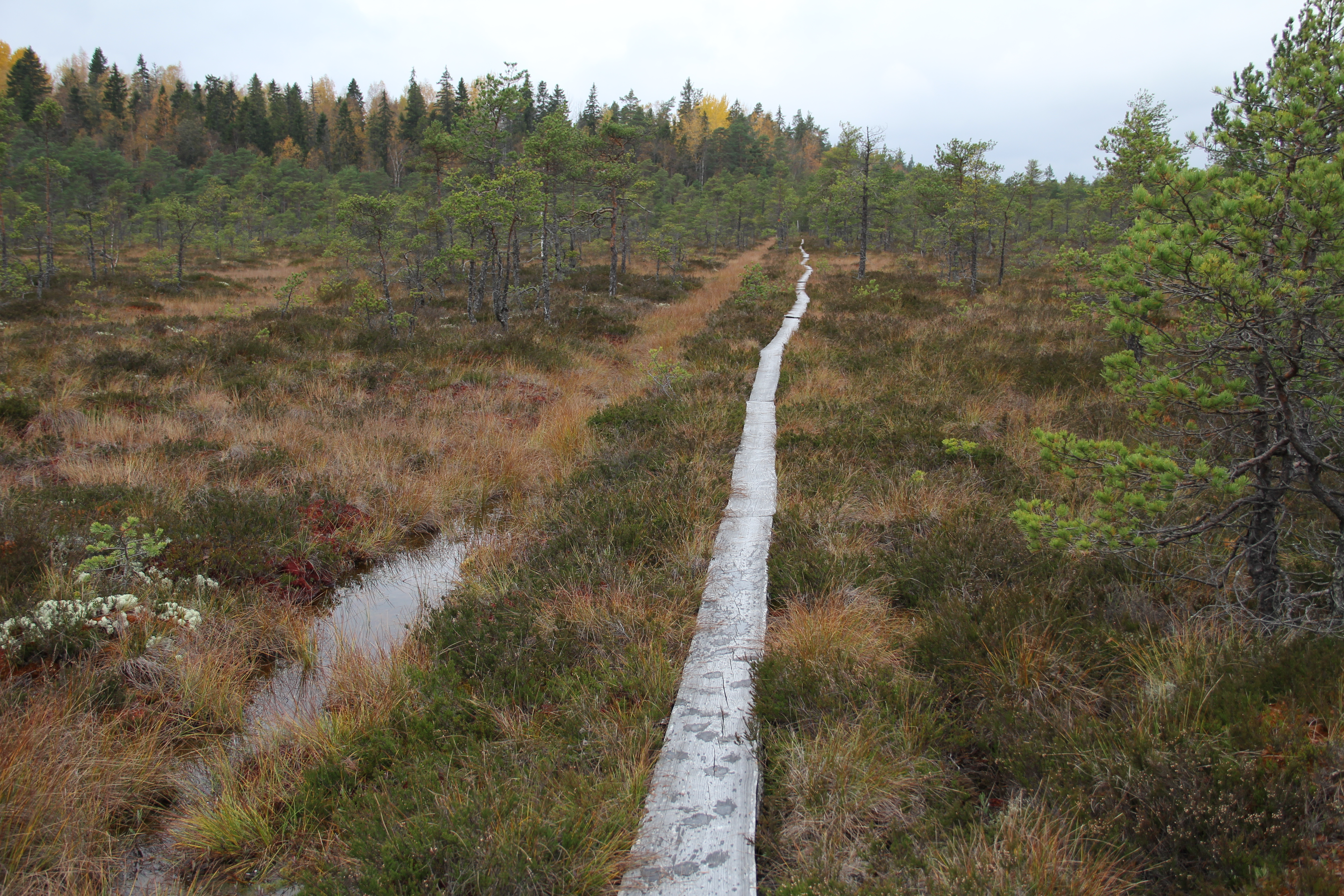 Valastensuo (bog) in Vaskijärvi Strict Nature Reserve in Yläne, Pöytyä, Finland.